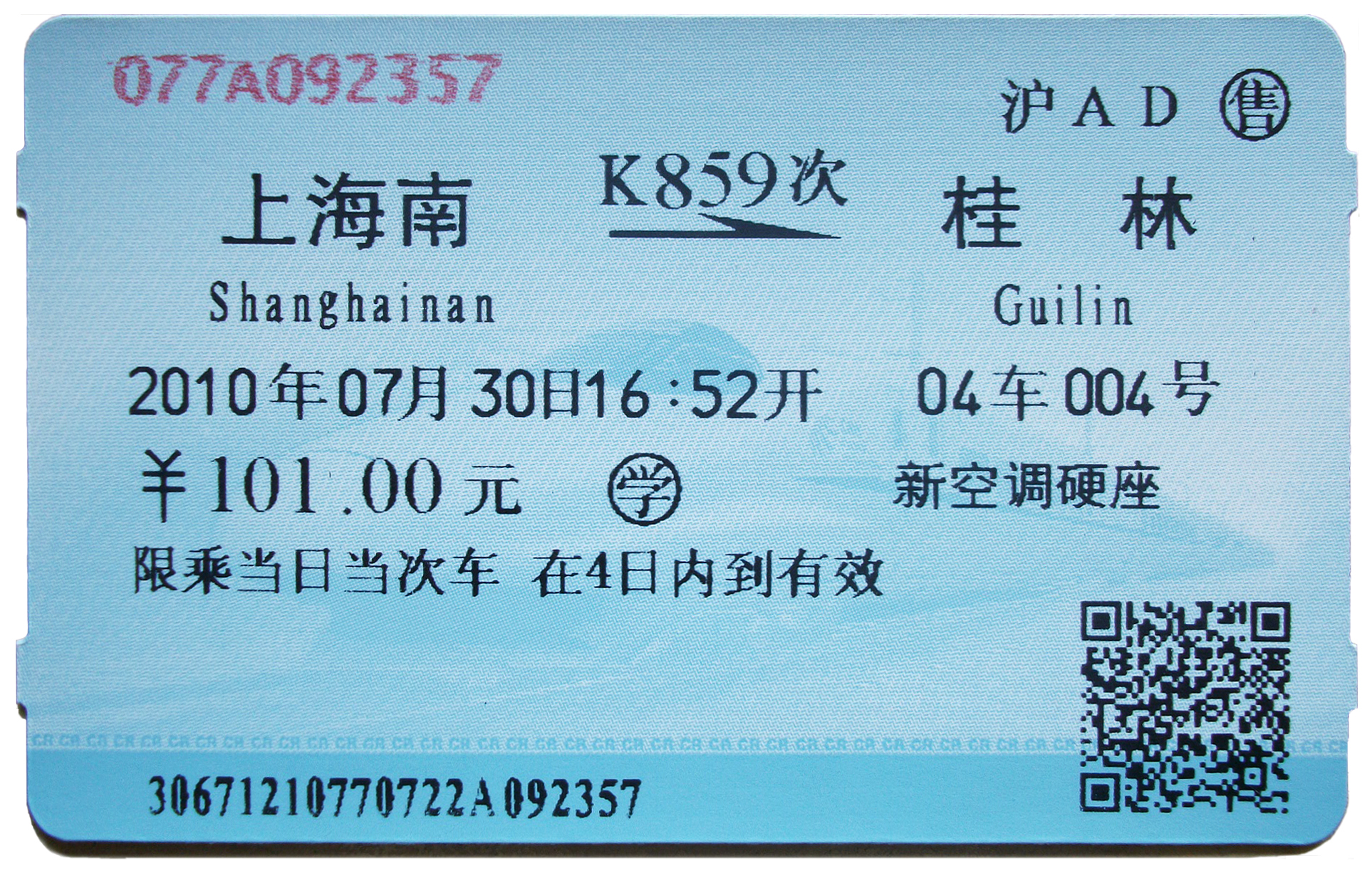 A student train ticket (blue) in China